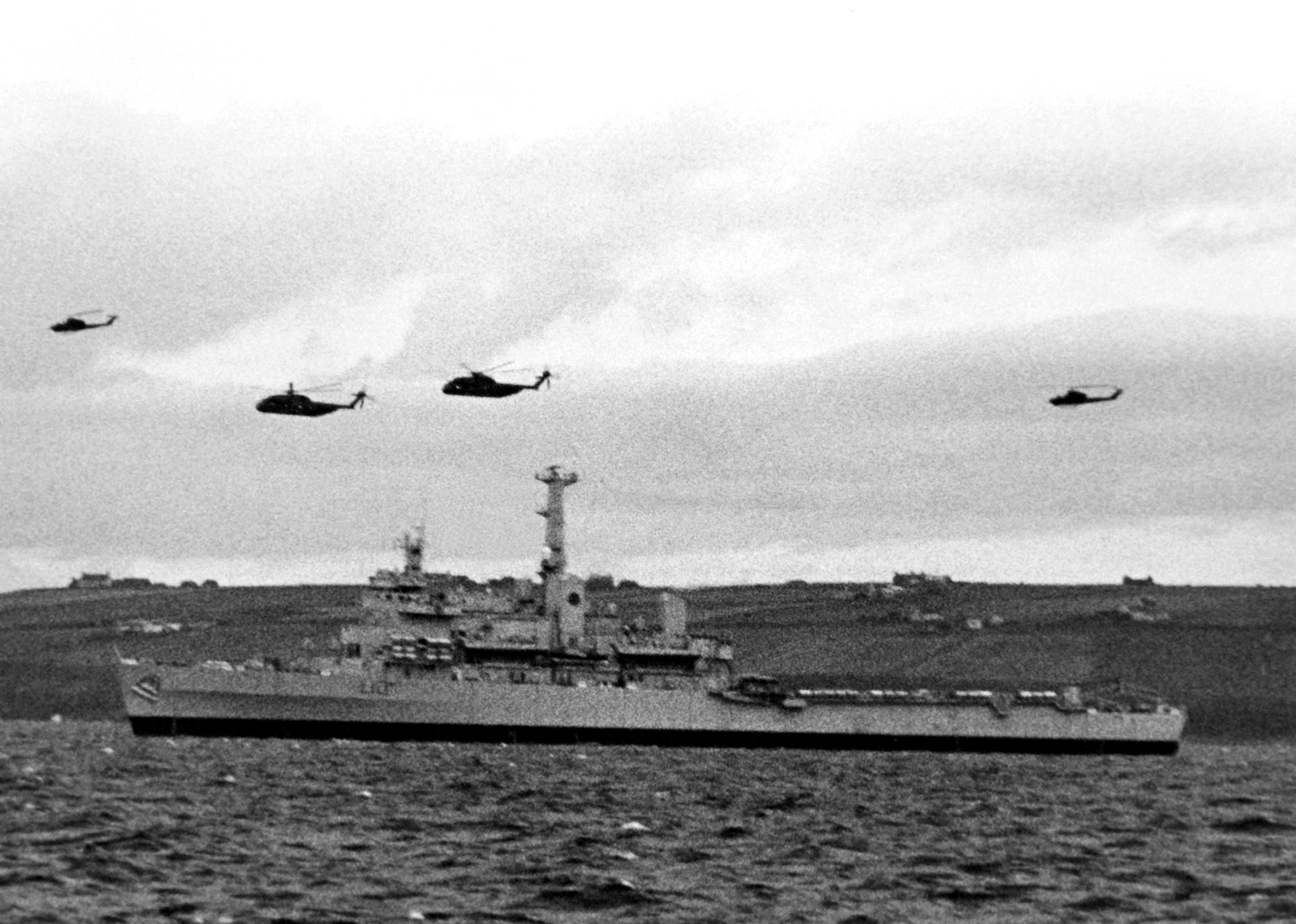 U.S. Marine Corps Bell AH-1J Seacobra and Sikorsky CH-53 Sea Stallion helicopters hover about the Royal Navy assault landing ship HMS Fearless (L10) at Sinclair's Bay, Scotland (UK), during the exercise "Northern Wedding" on 10 September 1982.